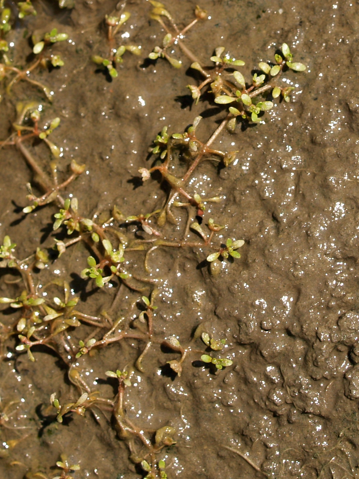 Yu Ito (2012) Aquatic plant surveys in the eastern and central parts of North America. Bulletin of Water Plant Society, Japan 98: 51-56.